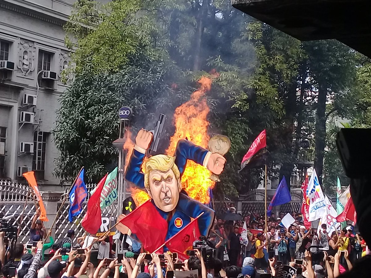 Protest against ASEAN and Trump visit in Manila November 2018 Effigy (Fascist Spinner) was inspired by fidget spinner